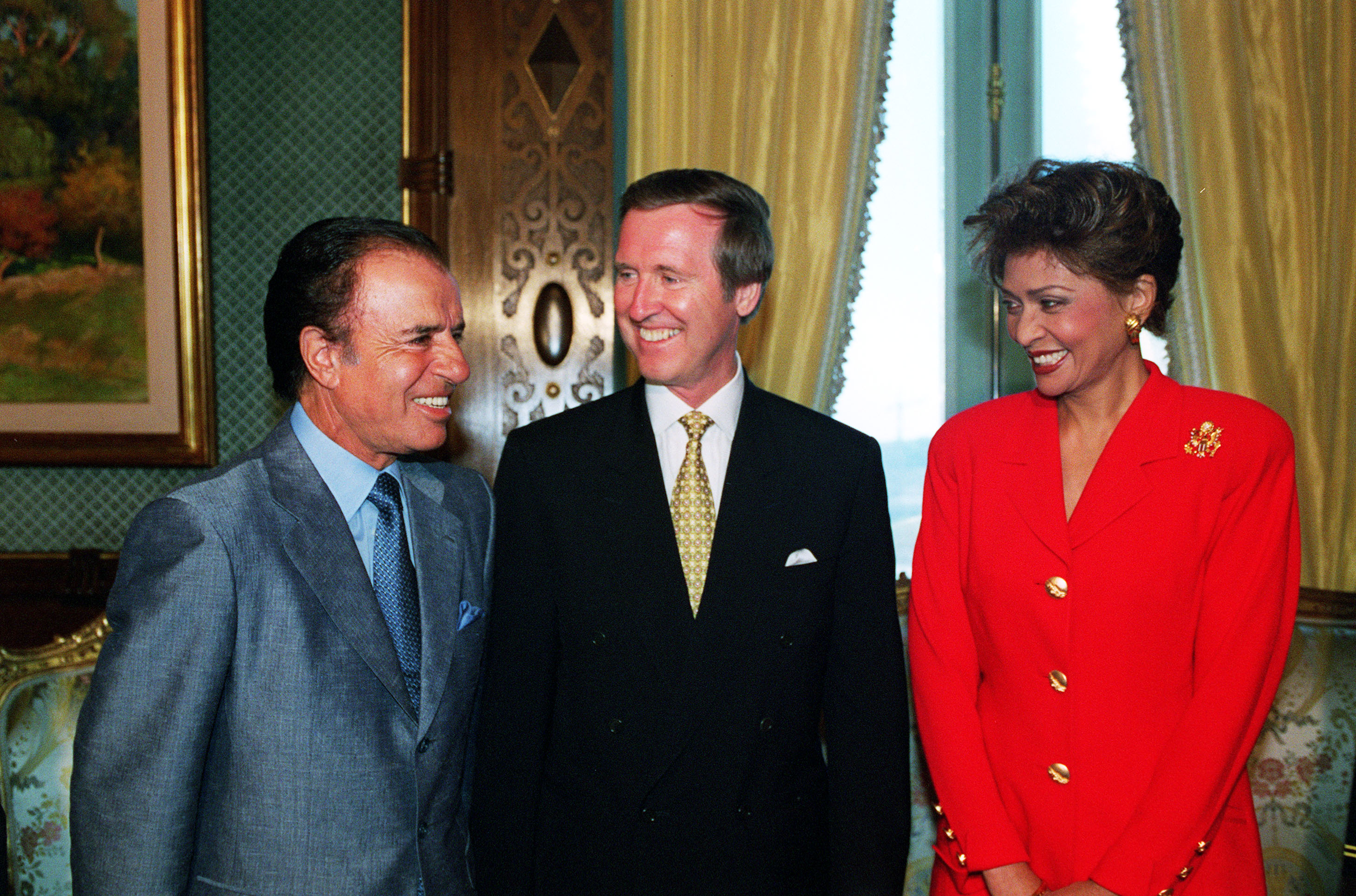 Argentina's President Carlos Saúl Menem (left) greets Secretary of Defense William S. Cohen (center) and his wife Janet at Casa Rosada in Buenos Aires, Argentina, on November 15, 1999. Cohen is visiting Argentina to meet with senior government leaders.